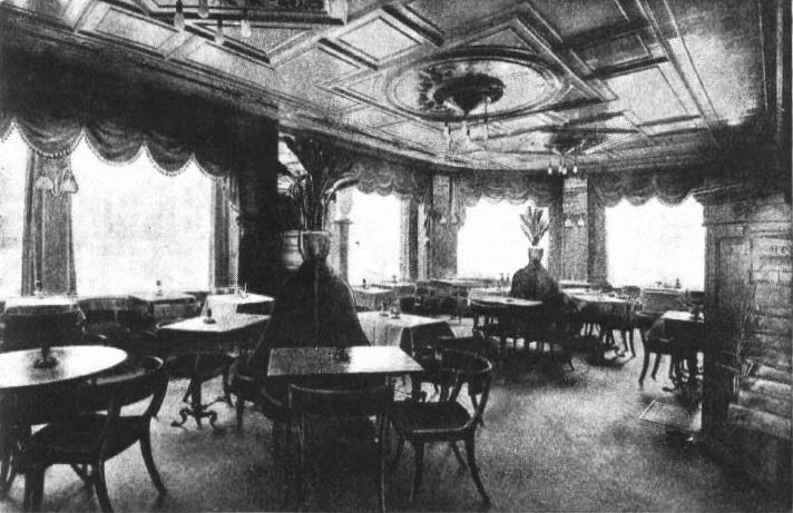 Postcard from Café Bernina, legendary café in Copenhagen. Opened 1881, closed 1952.